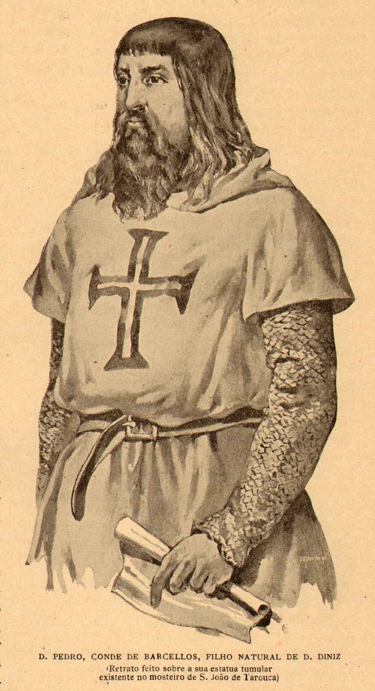 Illustration by Alfredo Roque Gameiro in the book História de Portugal, popular e ilustrada, by Manuel Pinheiro Chagas